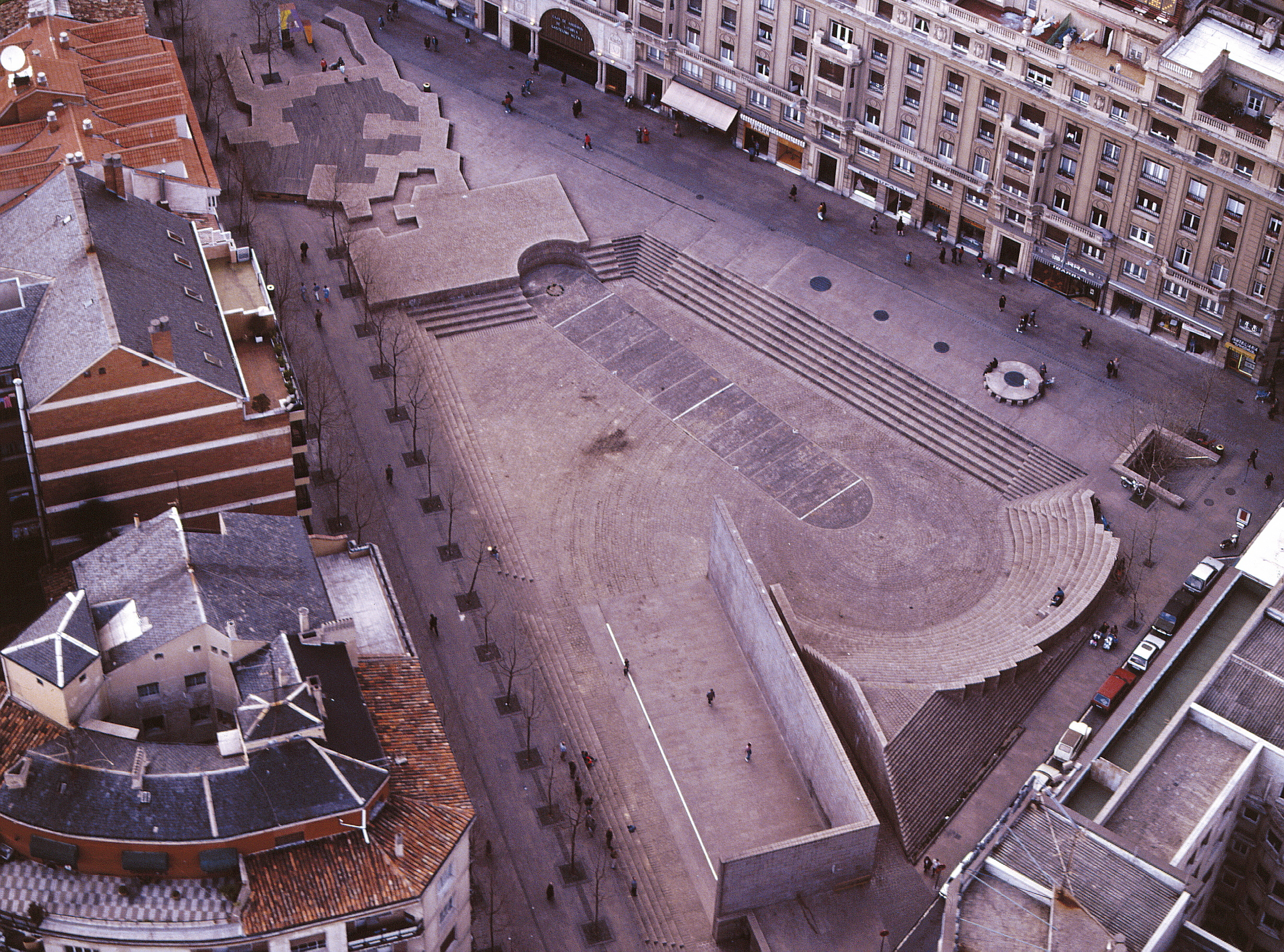 Fueros' Square, Vitoria-Gasteiz. Araba, Basque Country.